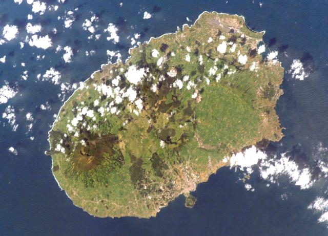 Picture of Terceira from space.